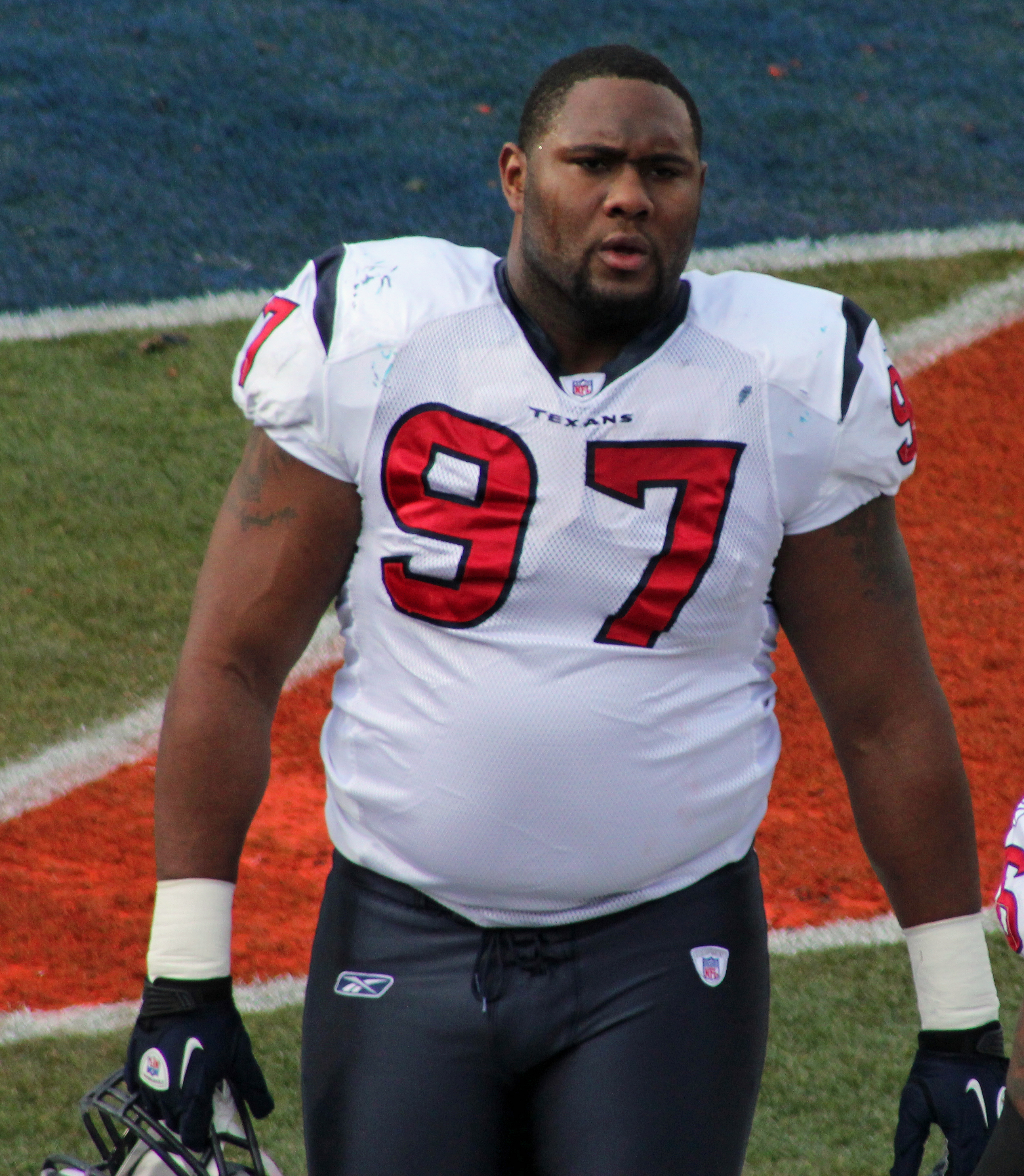 Damione Lewis, a player on the Houston Texans American football team.